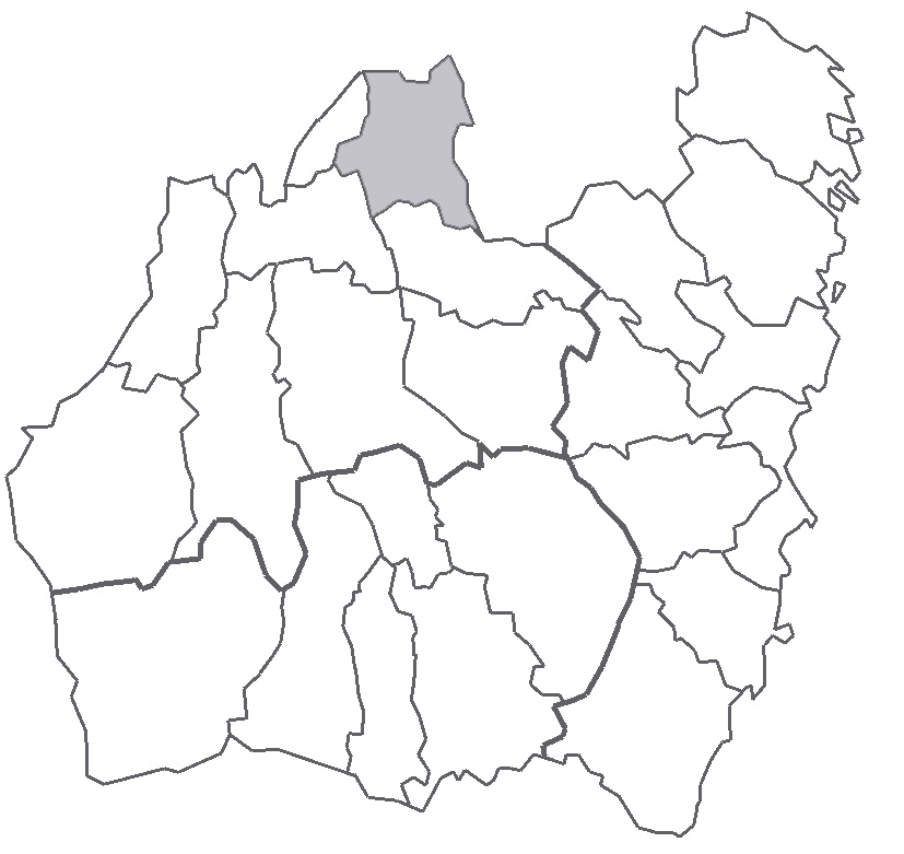 Map describing the location of Vedbo Northern Hundred in the province of Småland, Sweden.